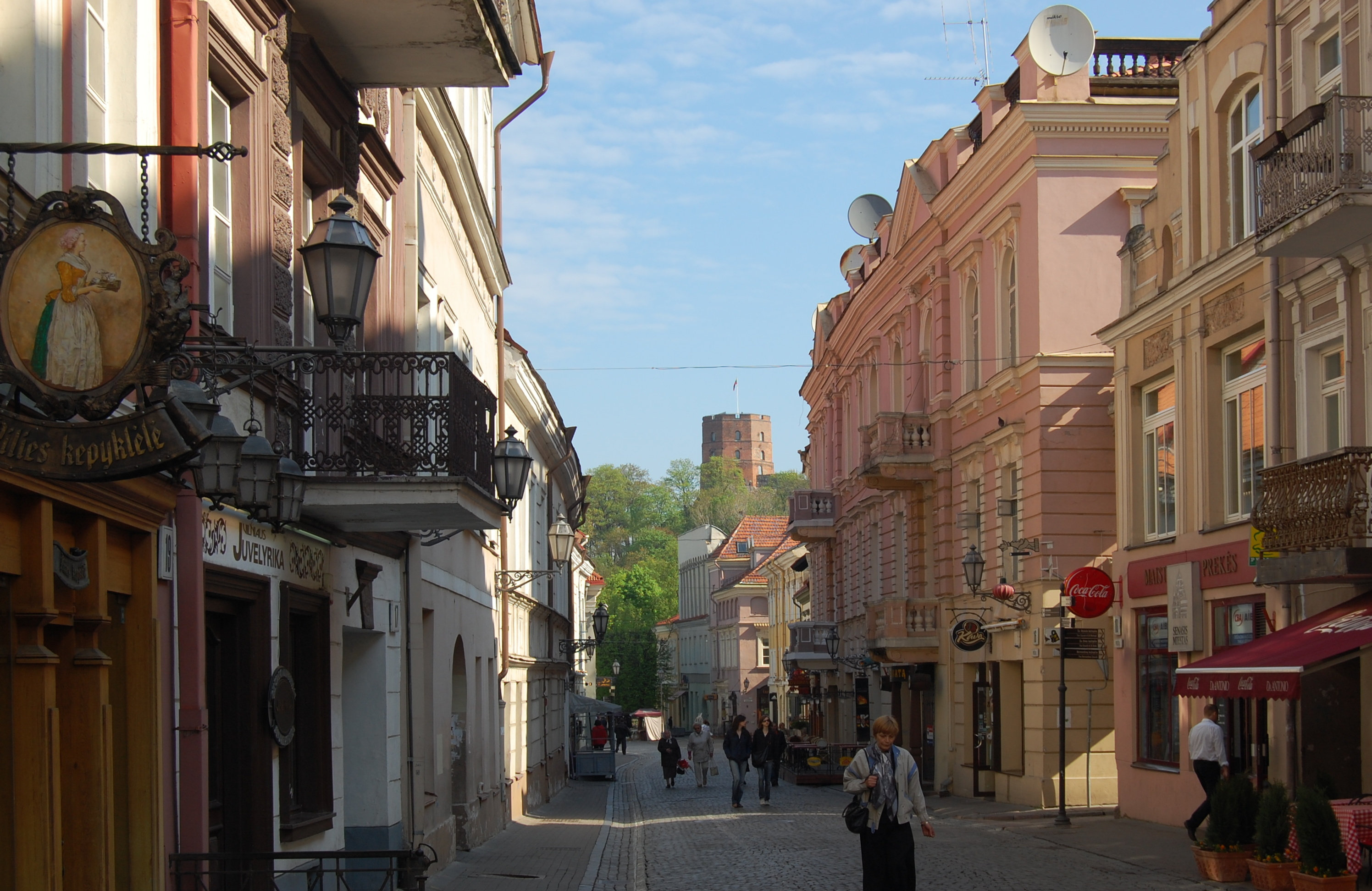 Pilies Street, Vilnius, Lithuania This is a retouched picture, which means that it has been digitally altered from its original version. Modifications: perspective correction adjusted.